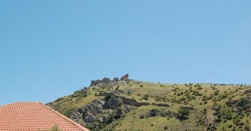 Castle of Gynaekocastro (Oria)